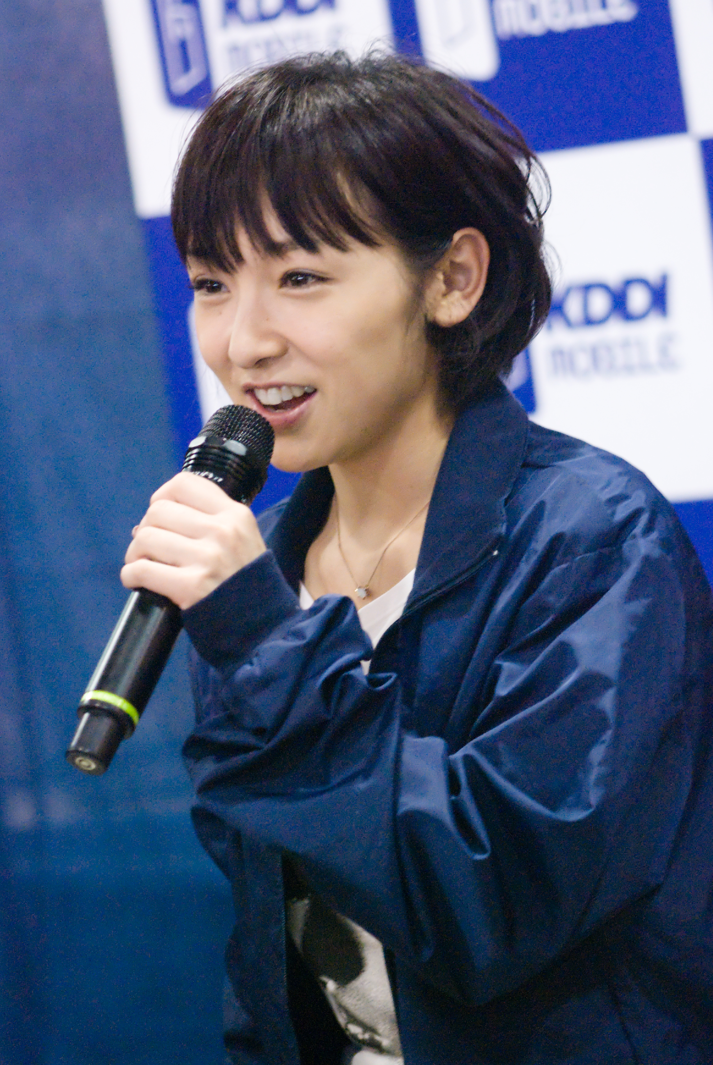 Ai Kago at a KDDI press conference held at the Mitsuwa Marketplace in Edgewater, NJ.